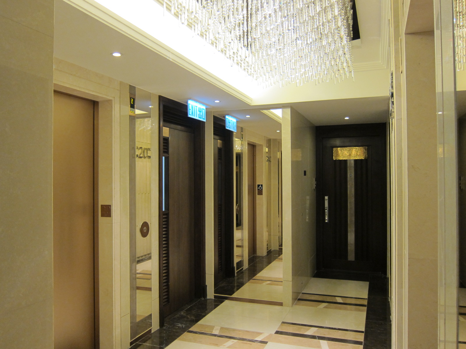 Le Prestige